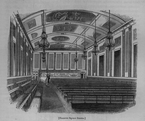 Engraving of interior of Hanover Square Rooms in Hanover Square, arranged for a private concert